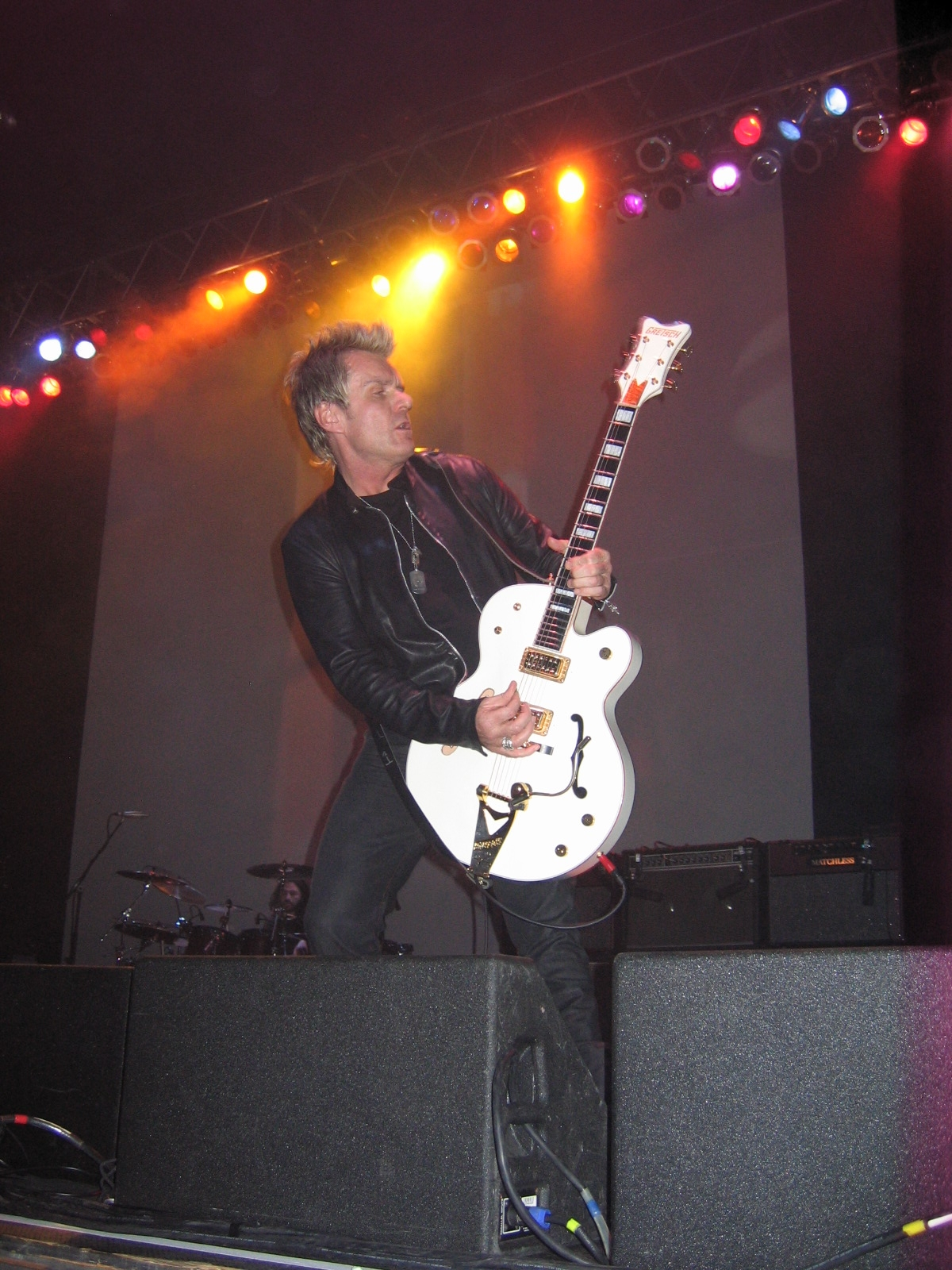 Billy Duffy playing his White Gretsch with The Cult in Rochester, NY